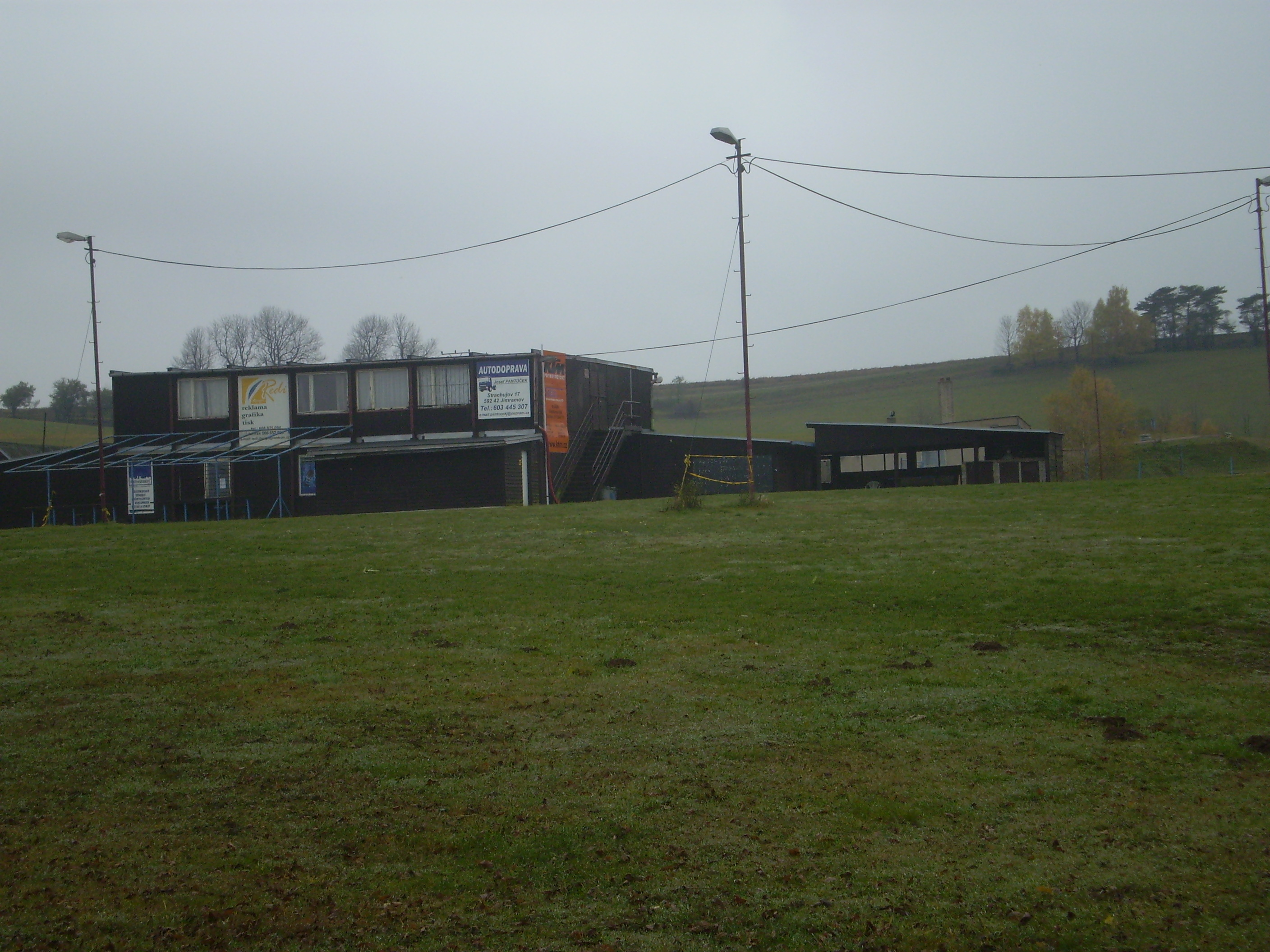 Písečné, Žďár nad Sázavou District, Czechia. Motocross track.